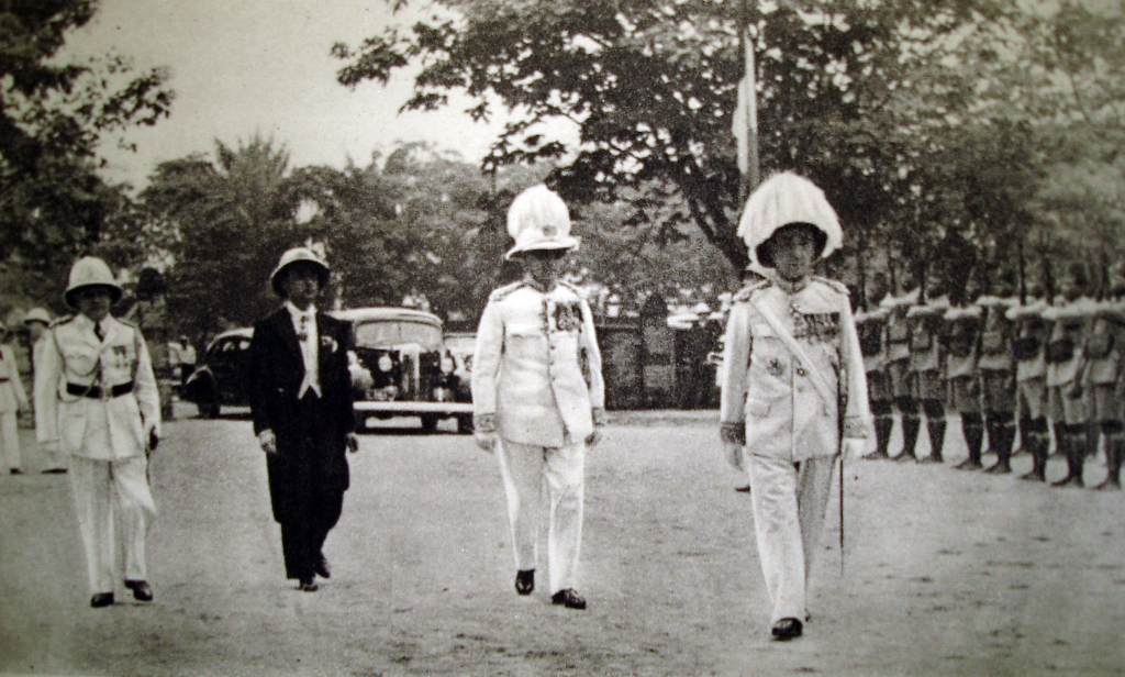 Pierre Ryckmans, Governor-general of the Belgian Congo, attends the ceremony inaugurating the statue of King Albert I in Leopoldville, 1938